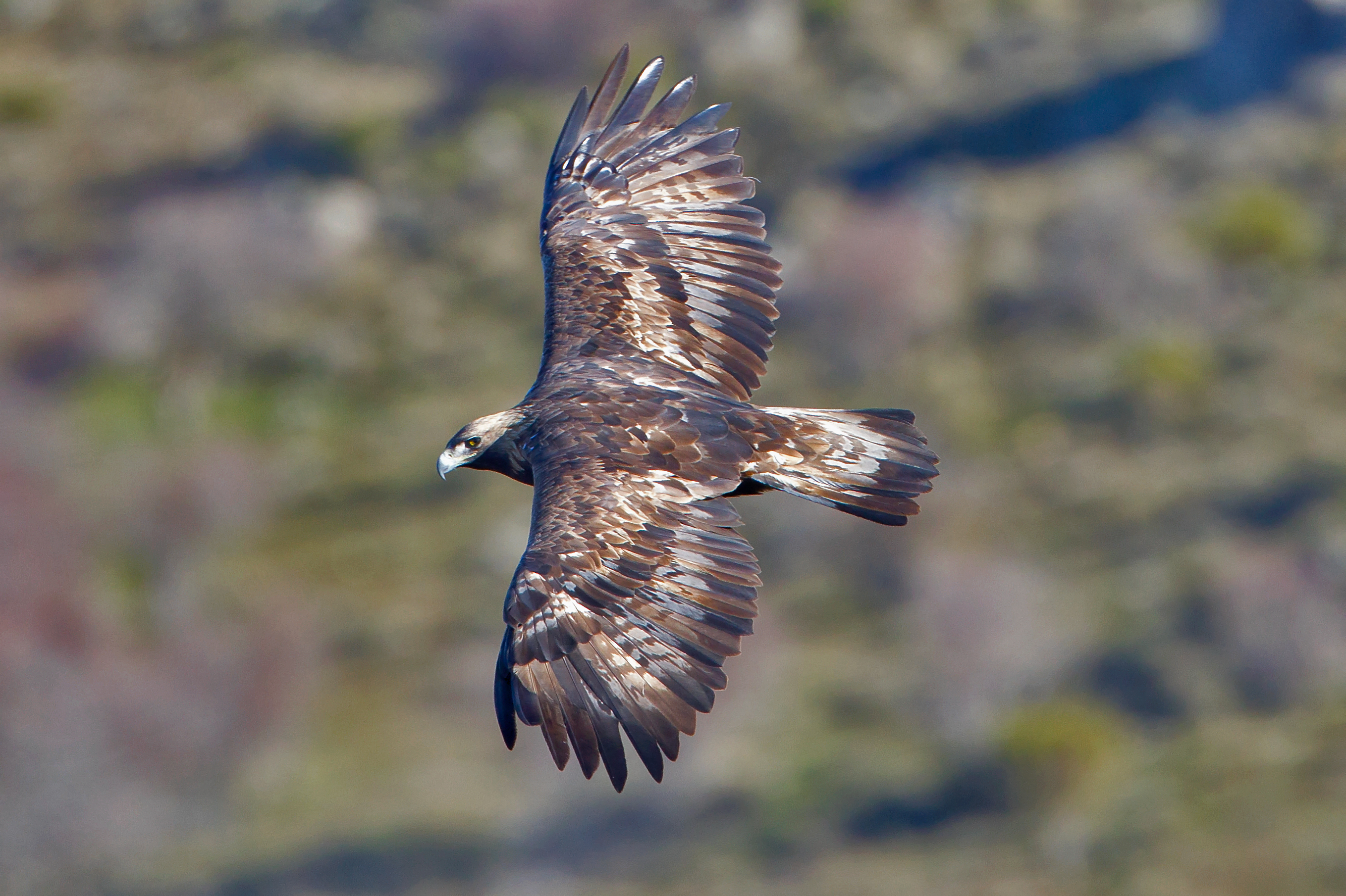 Golden Eagle (Aquila chrysaetos)